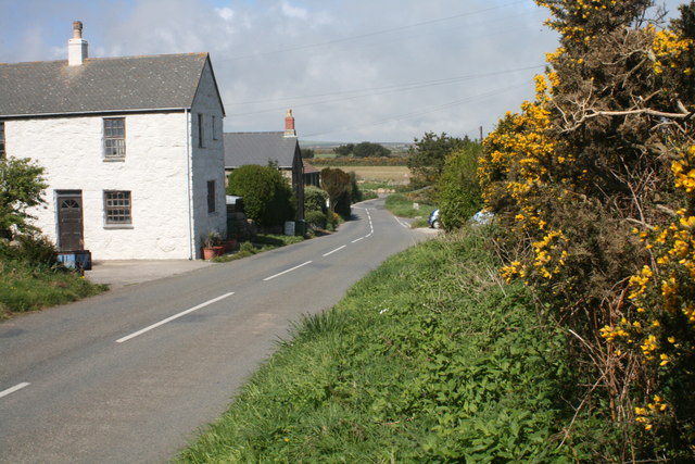 The hamlet of Sparnon Sparnon is the hamlet at the junction of the B3315 and the B3283.